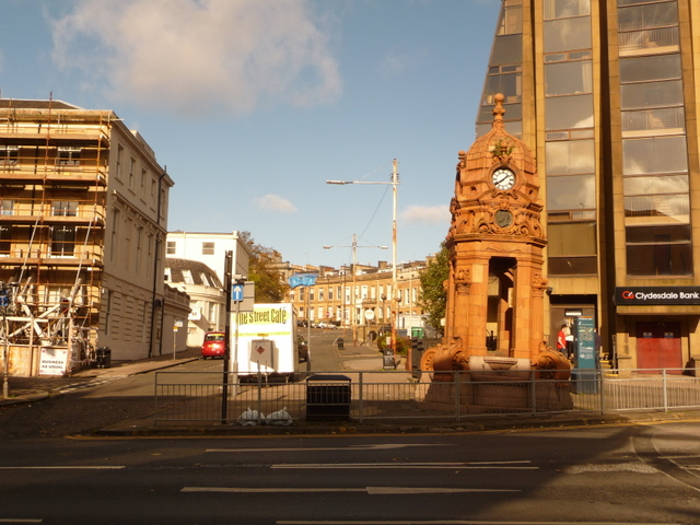 Glasgow: slightly leaning clock tower at Charing Cross Looking up Woodside Crescent from Sauchiehall Street, past this clock tower which leans slightly, as we look, to the right and away from us.